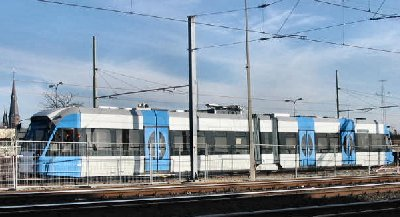 Light rail train in Alphen aan den Rijn in 2003.